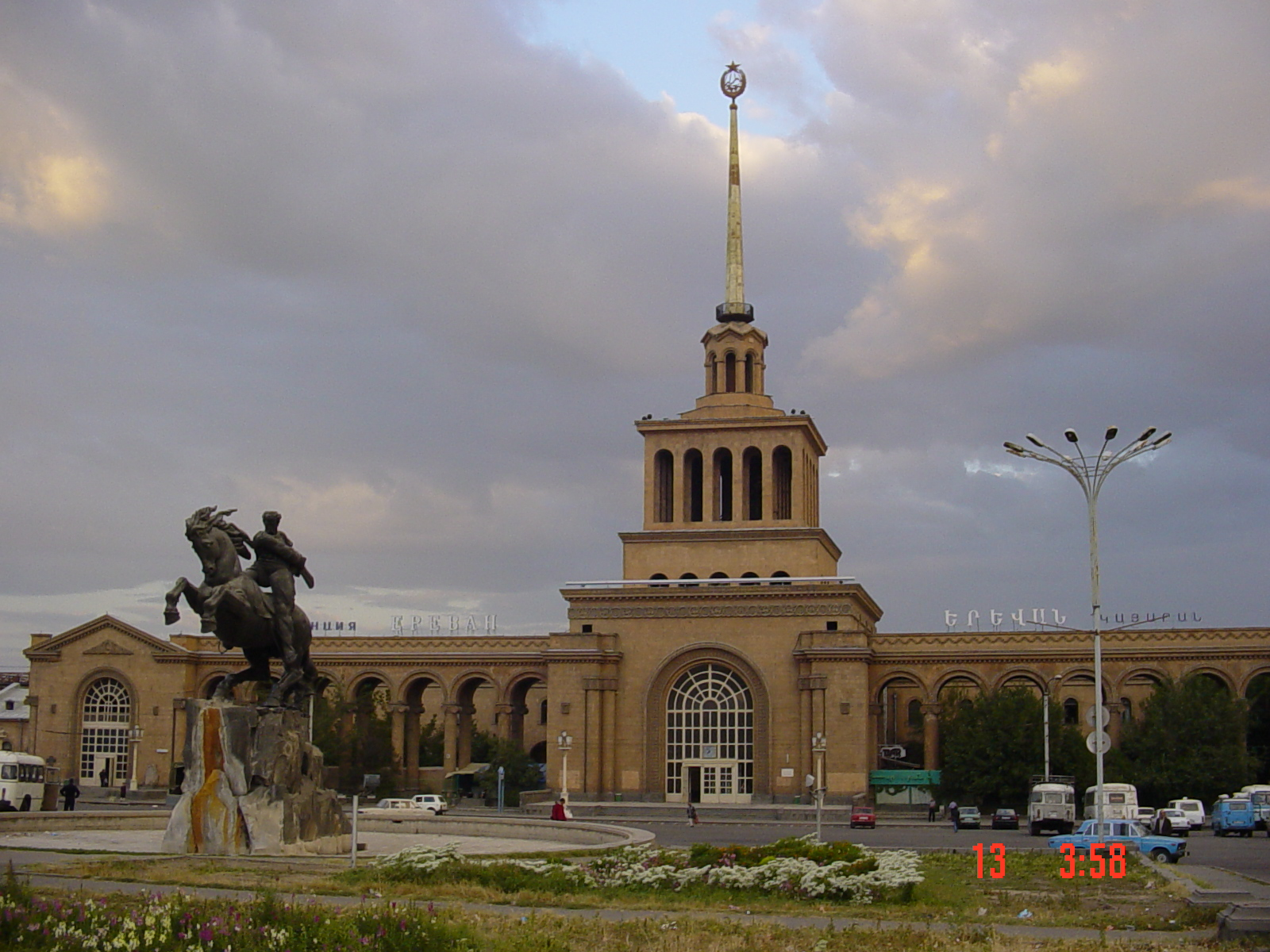 Main train station "Sasuntsi David" in Yerevan, Armenia. Building in a typical Soviet style.